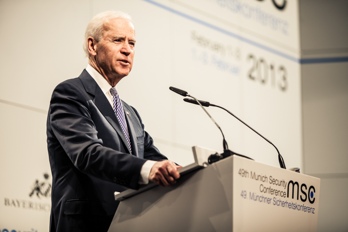 US Vice President Joseph Biden during his speech at the MSC 2013